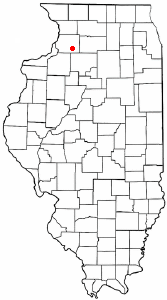 Category:Illinois city locator maps